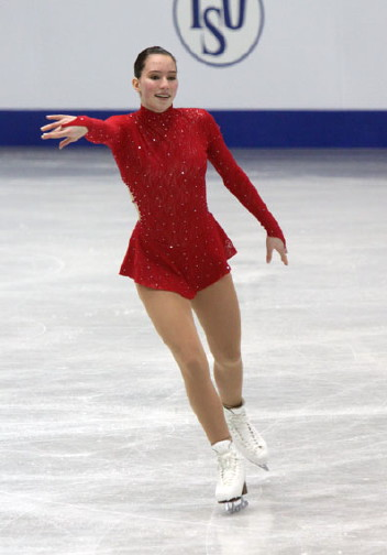 Sarah Hecken during her free skate at the 2009 World Junior Figure Skating Championships.